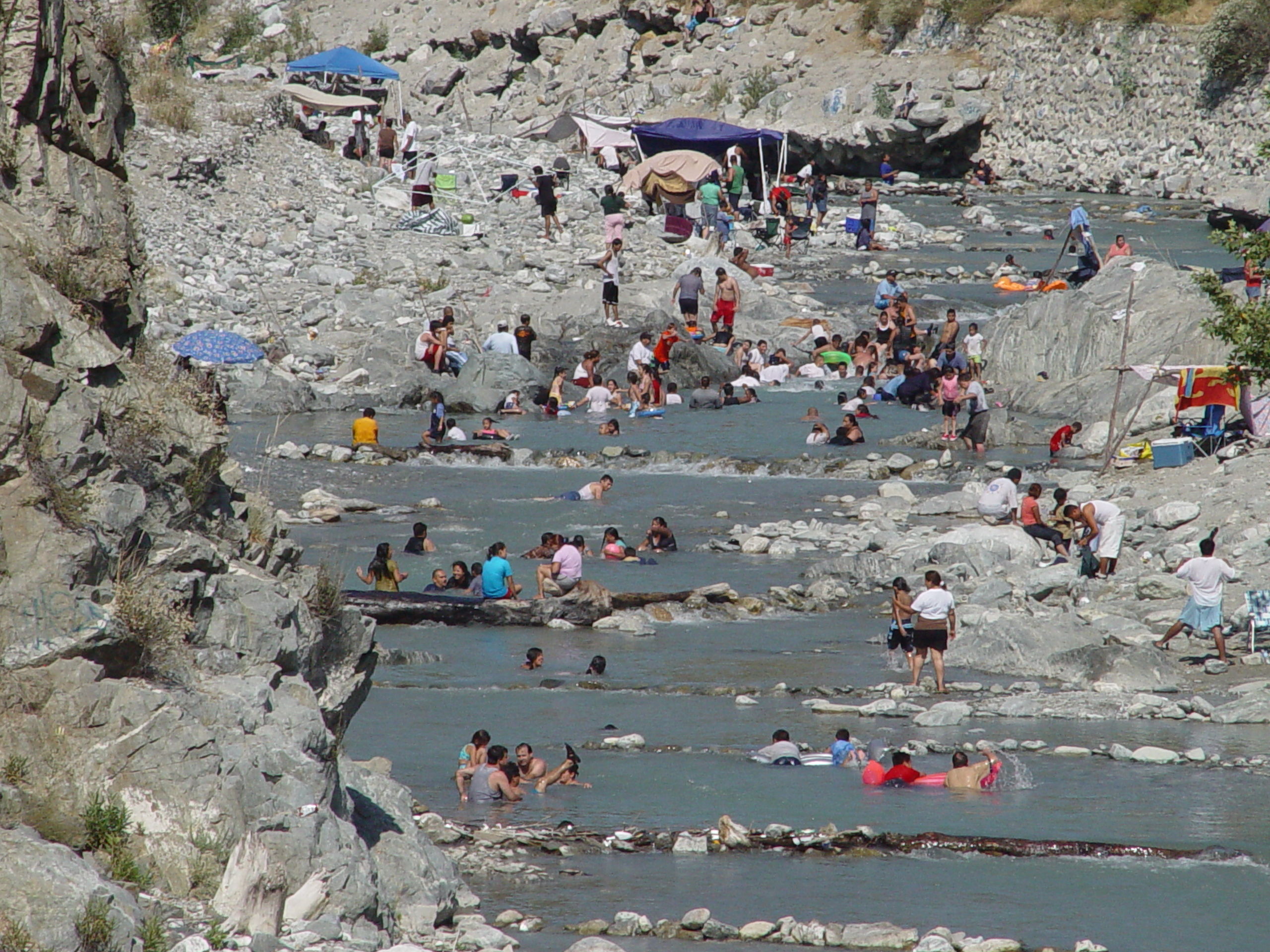 More than 125 people are seen swimming in one small section of the East Fork of the San Gabriel River in the Angeles National Forest. The San Gabriel River is one of the most heavily used areas in the entire National Forest system.